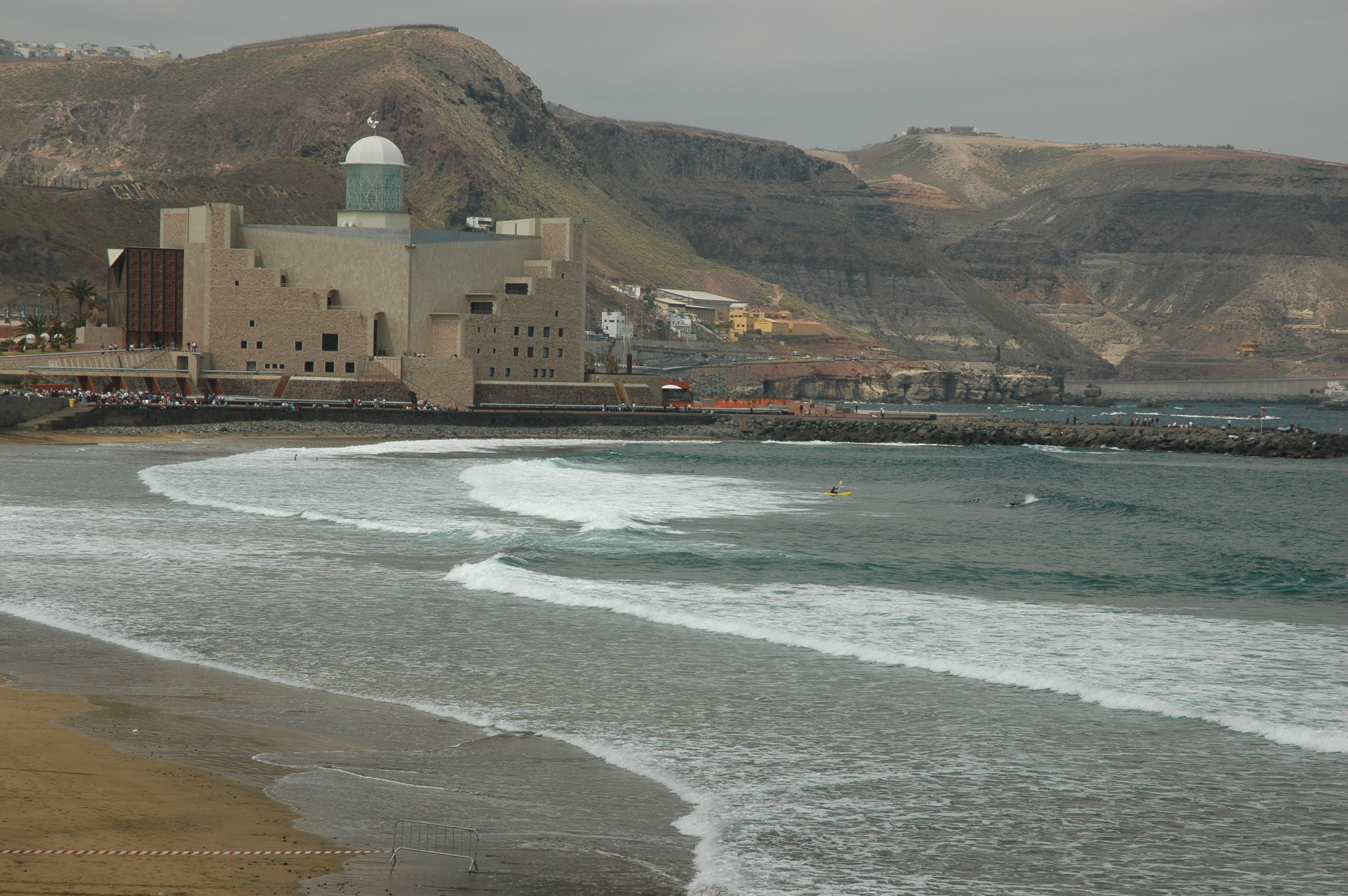 End of La Cícer and "Los Muellitos". To the bottom, Alfredo Kraus Auditorium. Las Canteras Beach, Las Palmas de Gran Canaria (Gran Canaria), Canary Islands. Spain.